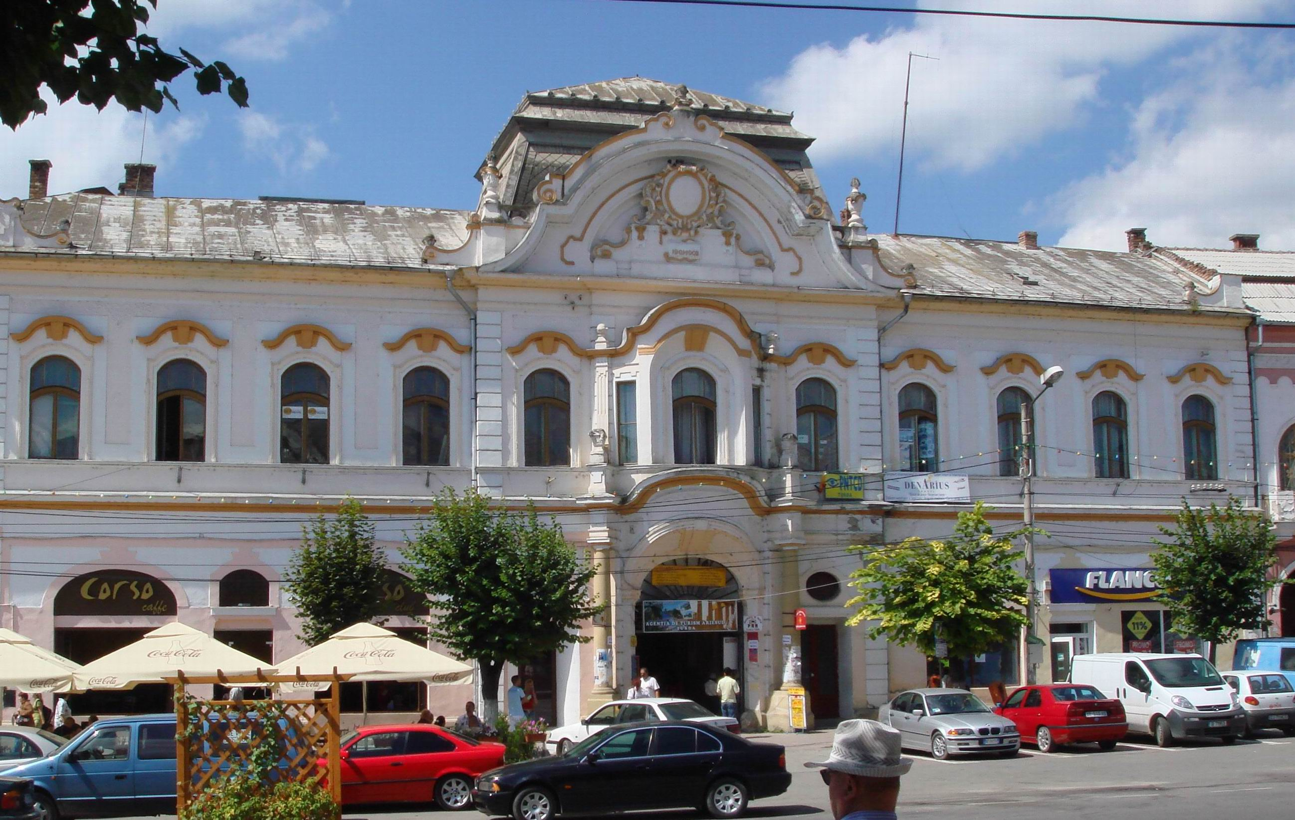 Former Palace of Finance, Cluj County, Romania